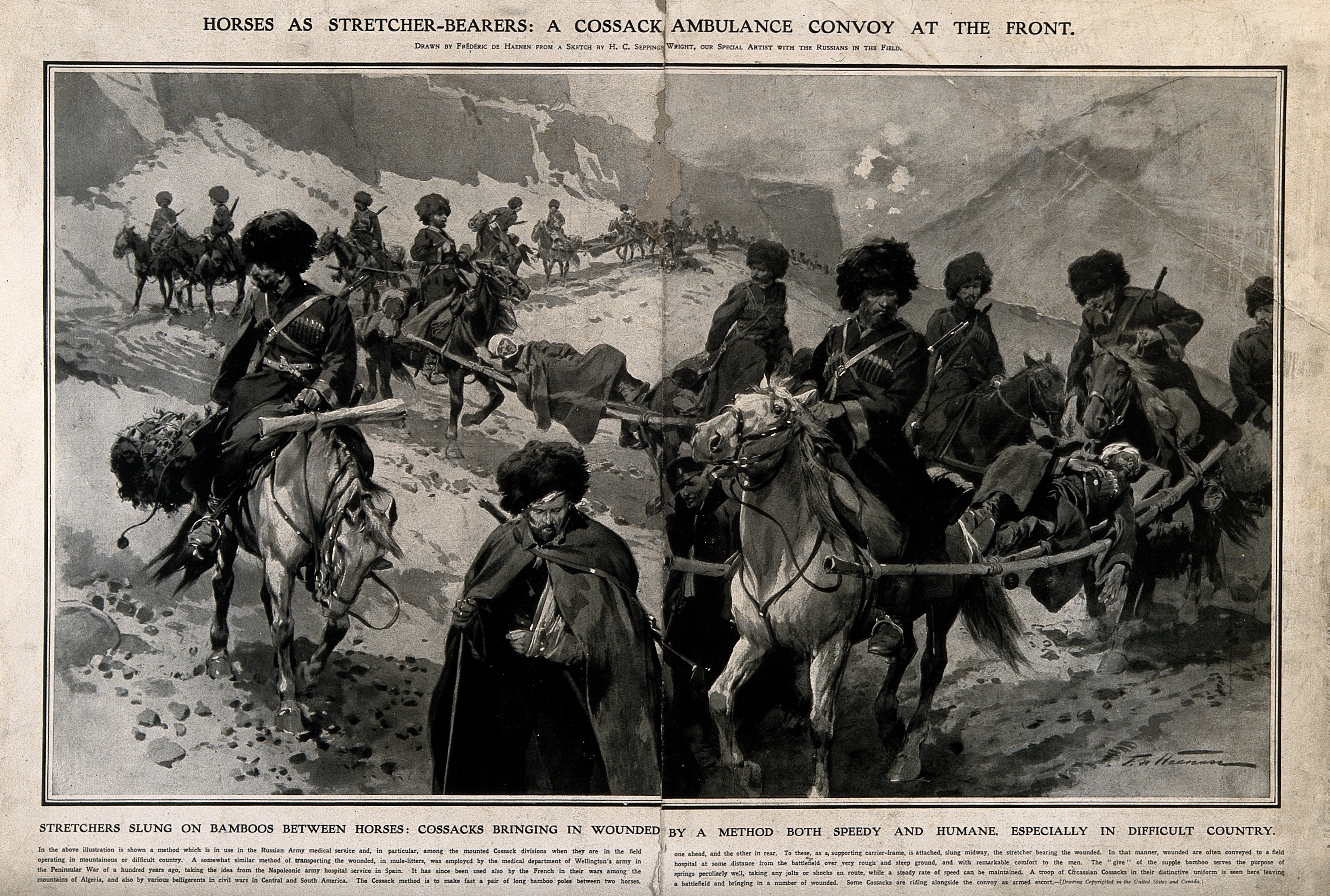 World War One: a mounted Cossack ambulance convoy using horses as stretcher-bearers. Halftone after F. de Haenen, 1916, after a sketch by H. Seppings Wright. Iconographic Collections Keywords: H. C. Seppings Wright; F. de Haenen